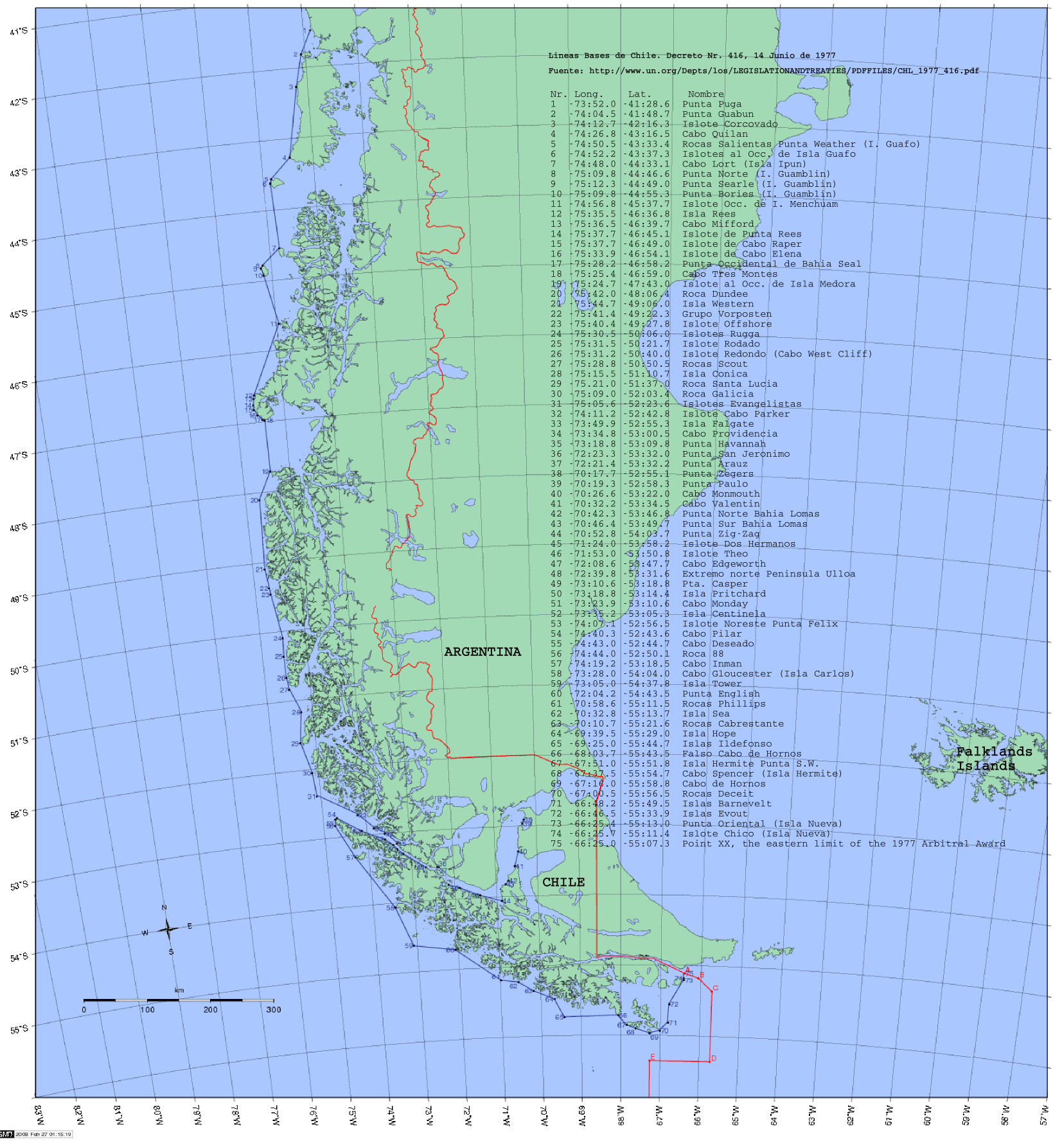 Baselines of Chile, Decree 416 14.Juni.1977